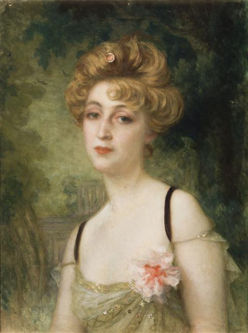 Portrait of Rosemonde Gérard, Mme Edmond Rostand